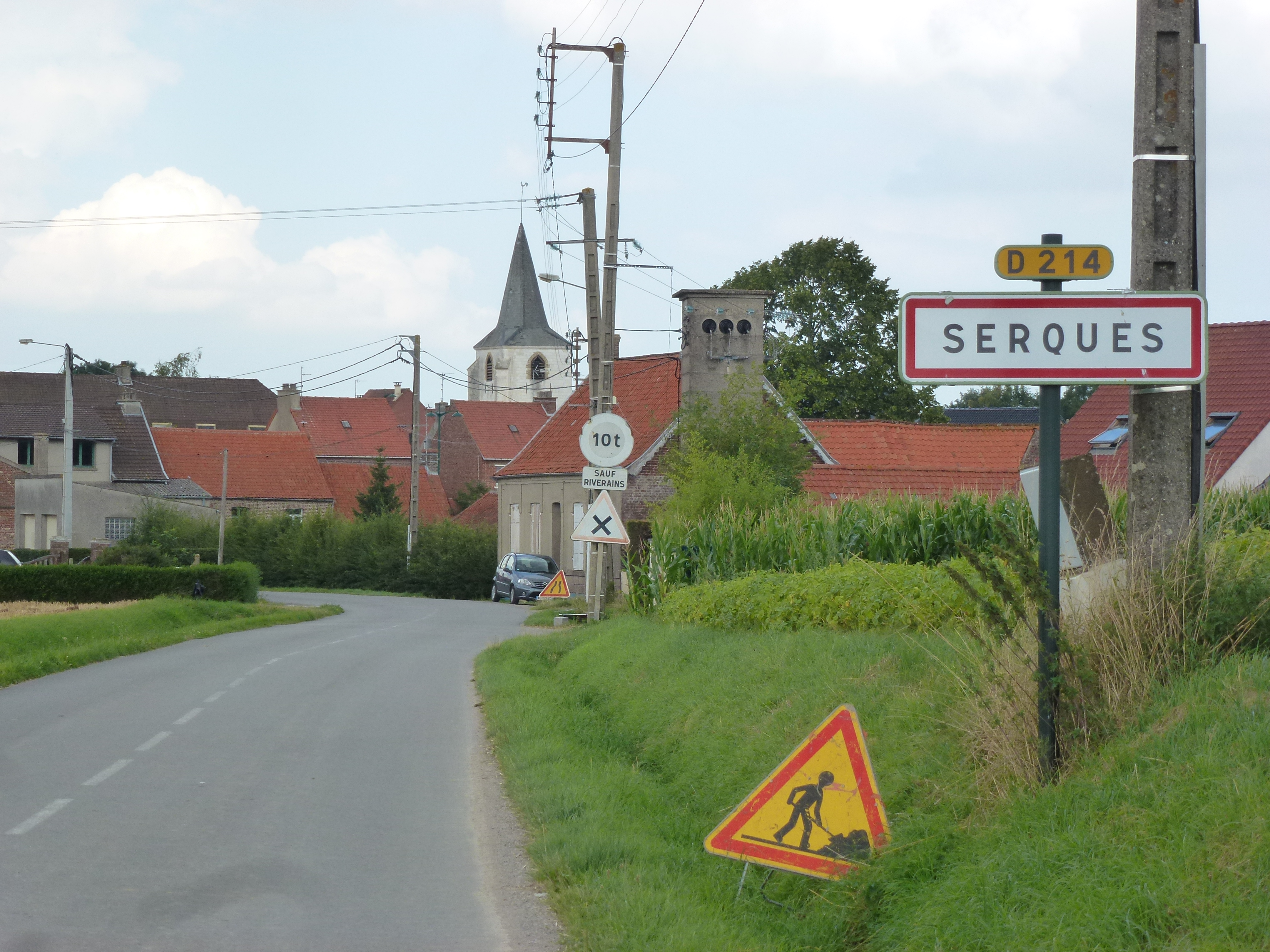 Serques (Pas-de-Calais) city limit sign